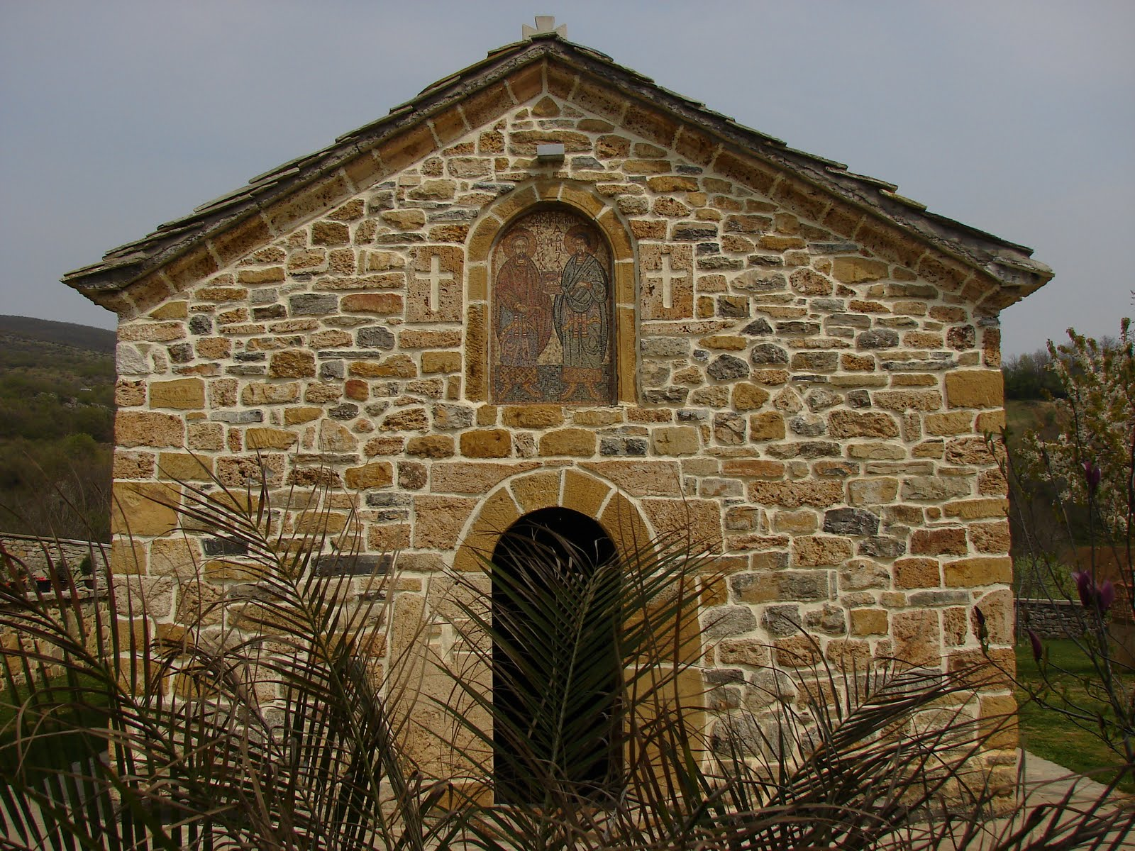 Zočište Monastery, front of the reconstructed church. Original 14th century church destroyed by Albanian mob in 1999.